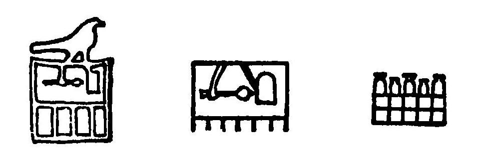 Hieroglyph names of Menes